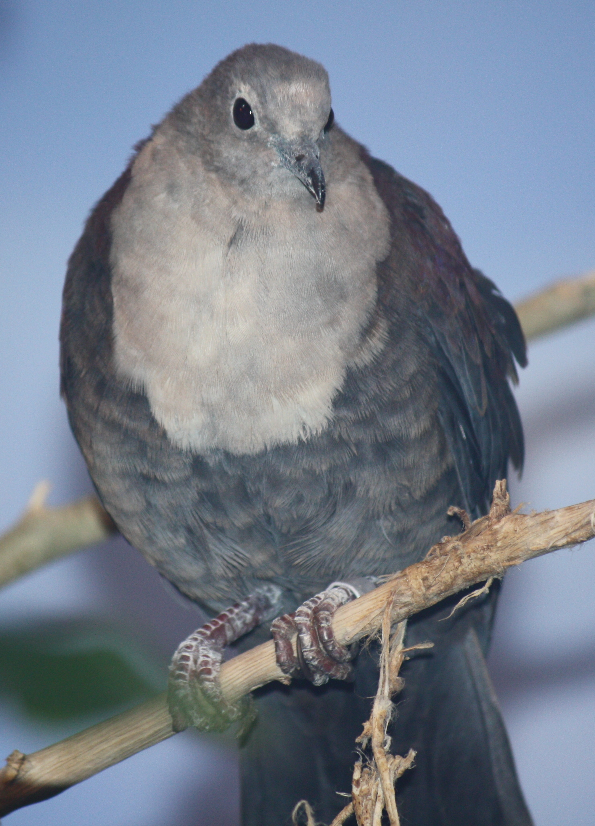 White-throated Ground Dove Gallicolumba xanthonura at Louisville Zoo